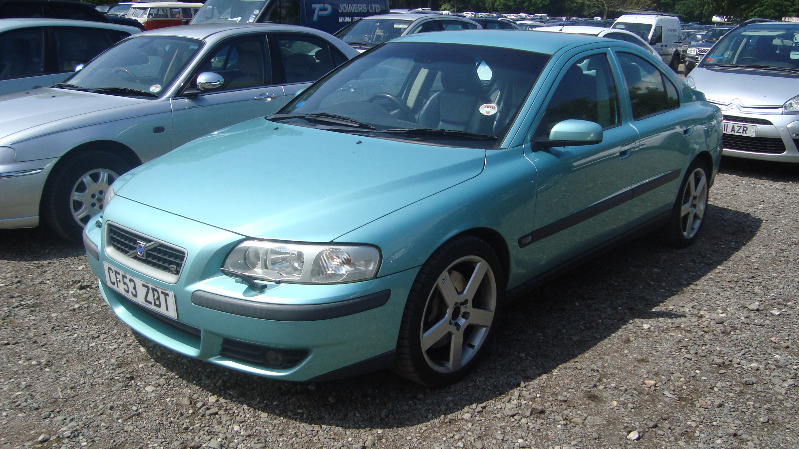 I love these S60 R's but for me the V70 R would be even better!